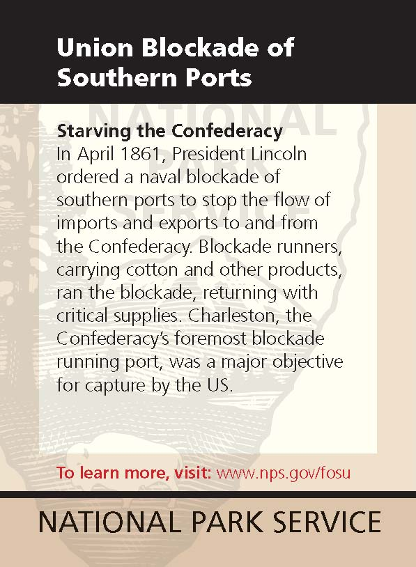 Starving the Confederacy In April 1861, President Lincoln ordered a naval blockade of southern ports to stop the fl ow of imports and exports to and from the Confederacy. Blockade runners, carrying cotton and other products, ran the blockade, returning with critical supplies. Charleston, the Confederacy’s foremost blockade running port, was a major objective for capture by the US.